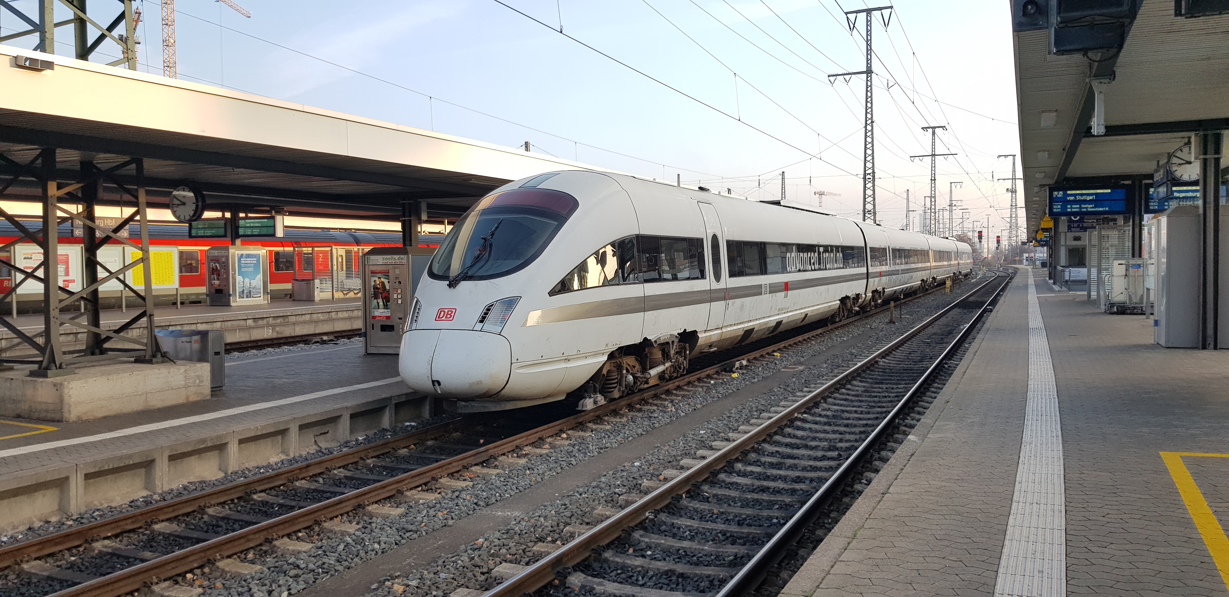 ICE-TD as “advanced train lab” at Nuremberg Main Station.